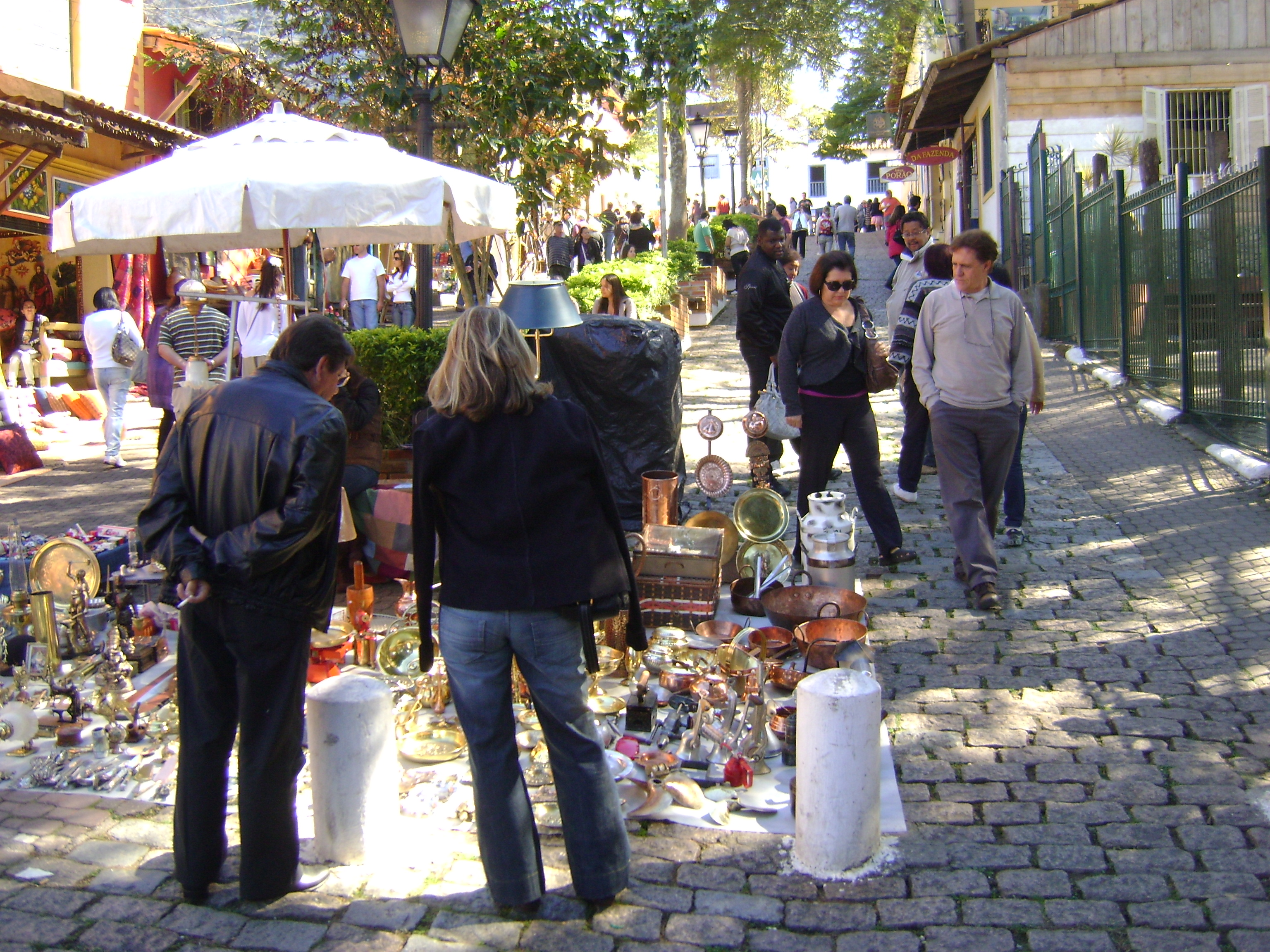 Embu street